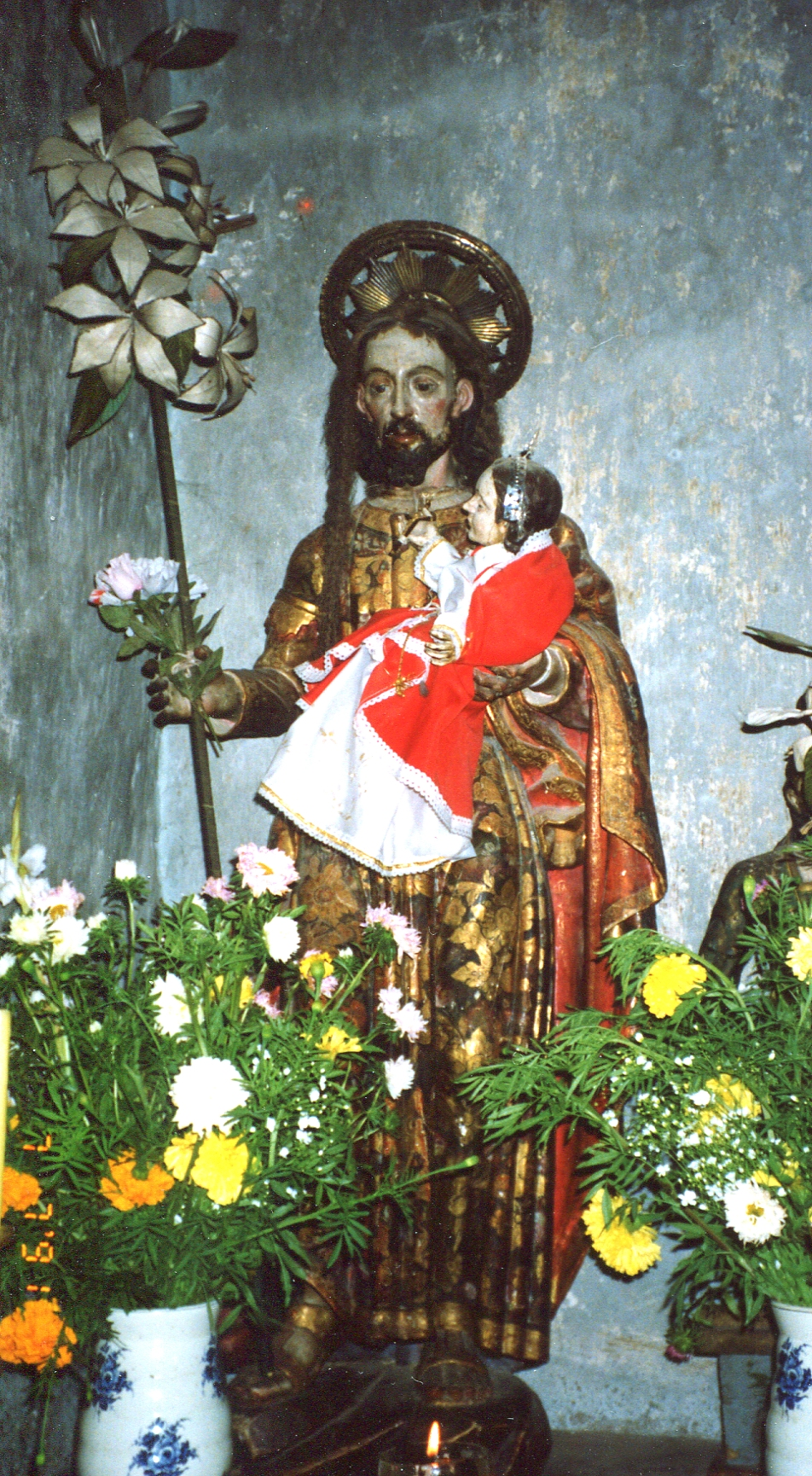 San José, in the church of Santo Domingo Díaz Ordaz, Oaxaca, Mexico, far left corner of the nave